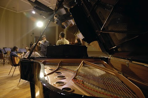 New music training room at Universidad de la Serena in La Serena. Supported by MECESUP Program